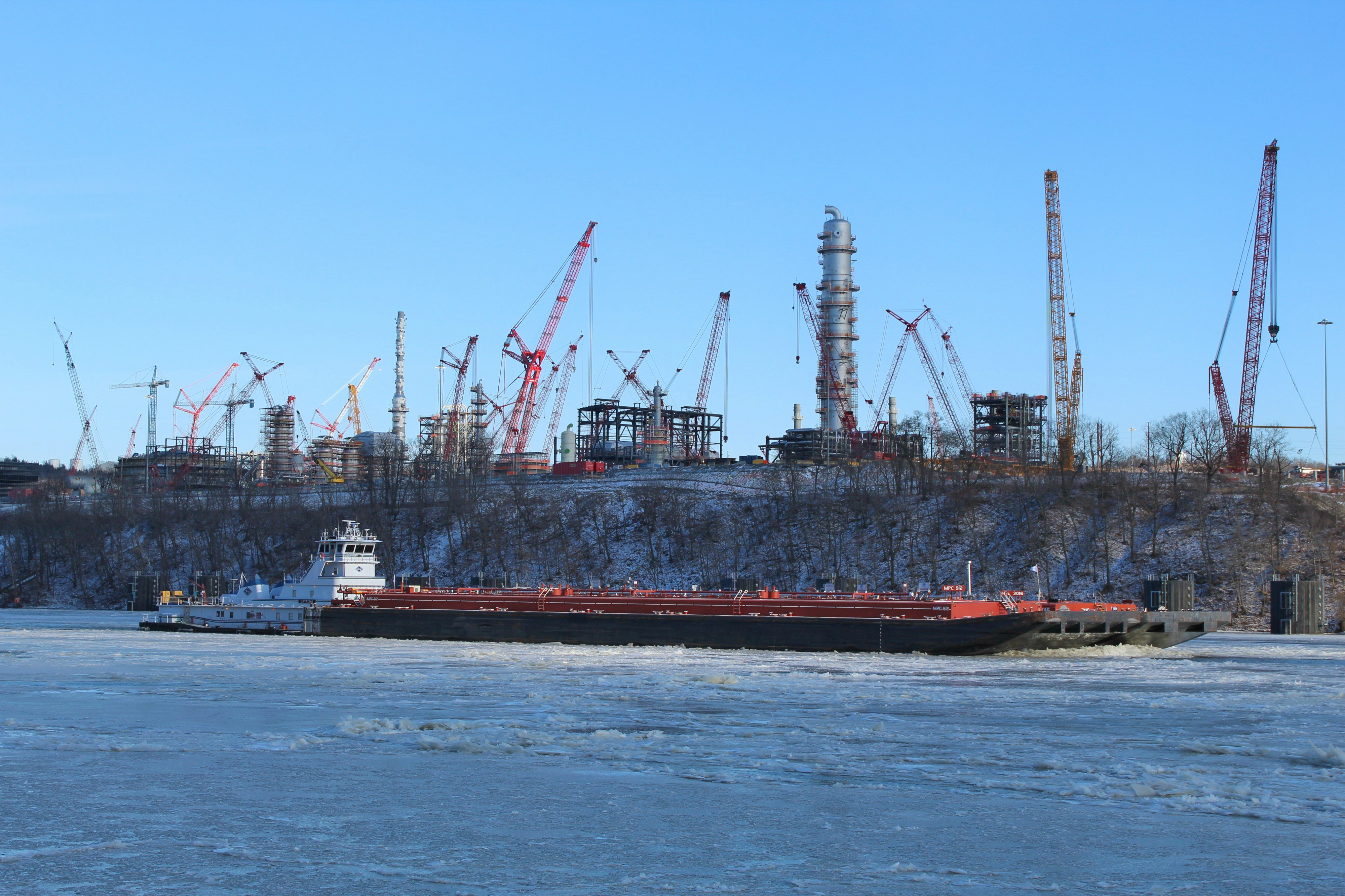 A Pittsburgh towboat pushes a barge down the icy Ohio River. Behind is the on going construction of the Shell Cracker Plant in Beaver County, Pennsylvania in January 2019.